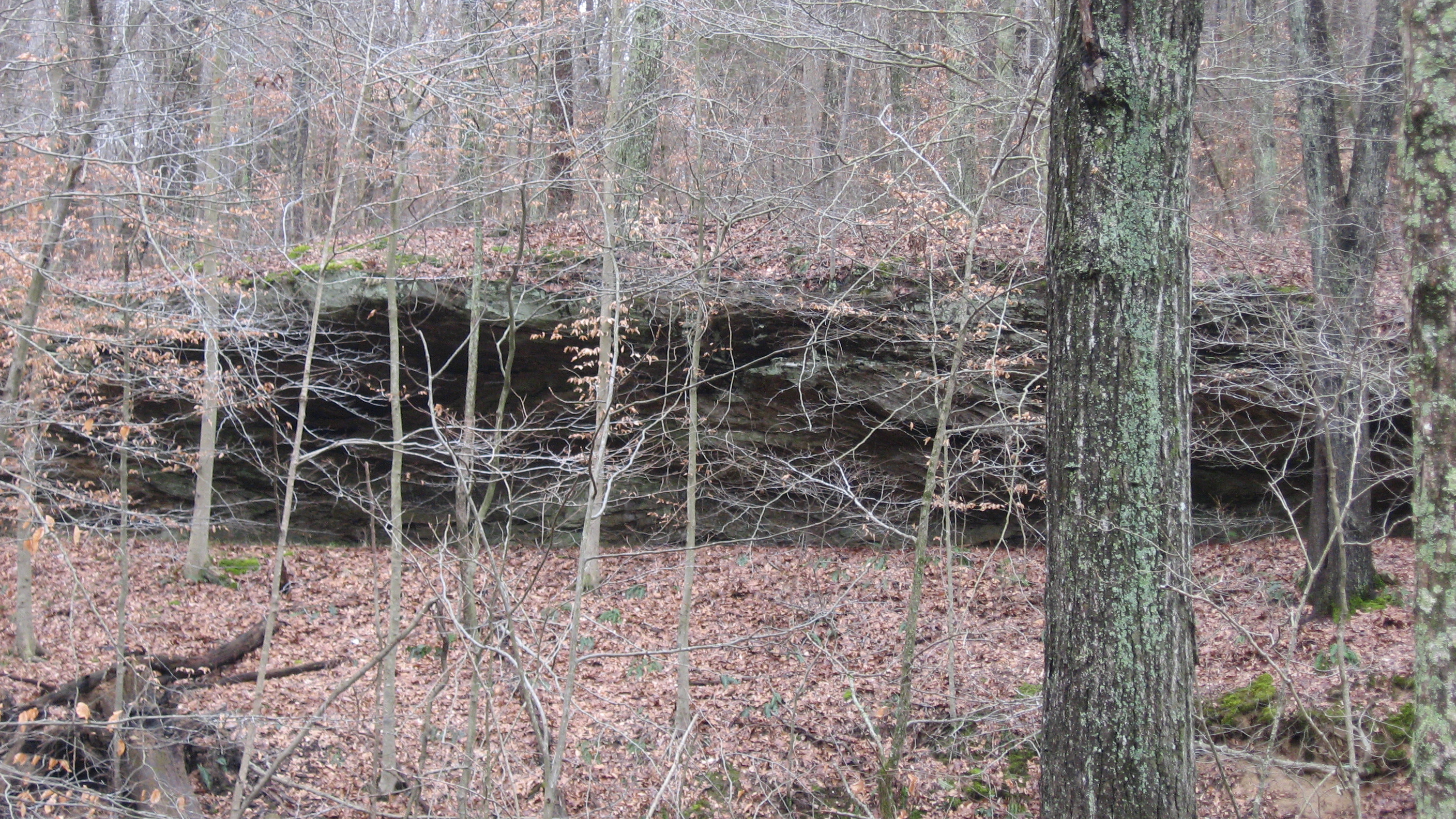 Roadside view of the Potts Creek Rockshelter, located along Potts Creek and State Road 62 west of West Fork in Union Township, Crawford County, Indiana, United States. An important archaeological site, it is listed on the National Register of Historic Places.